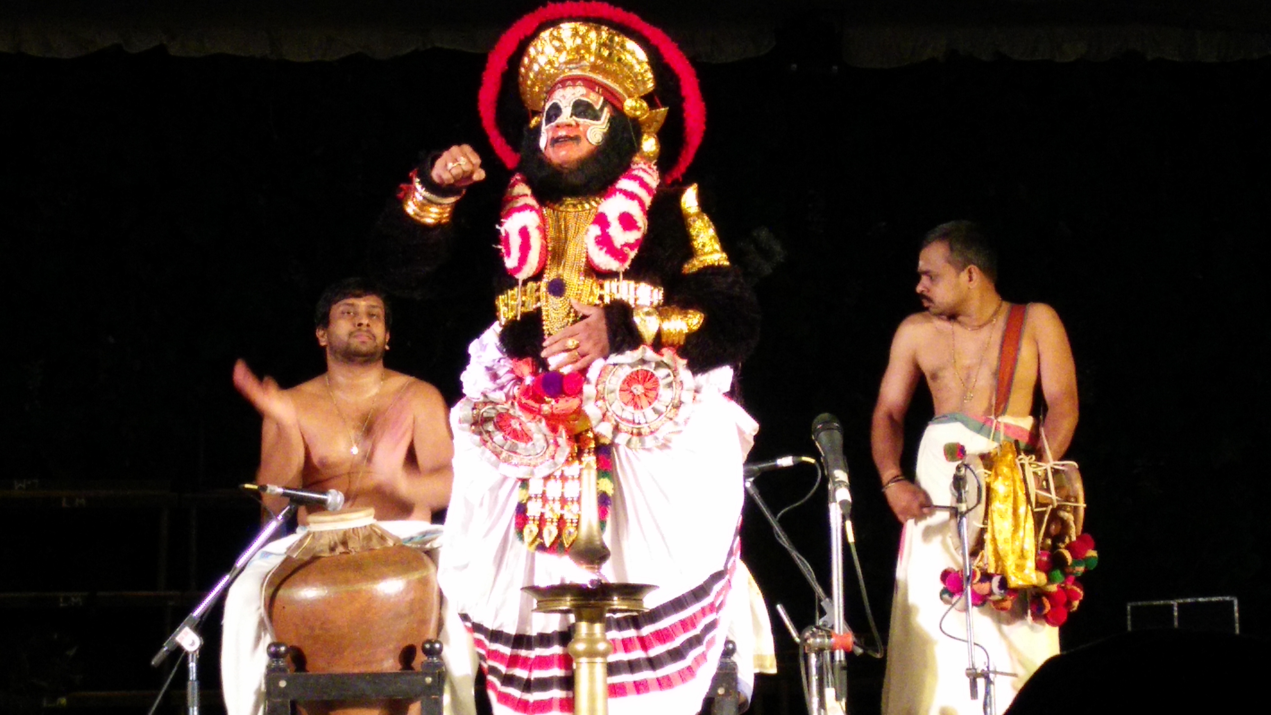 Koodiyattam performance by Margi Madhu during Yamini 2016 IIMB Bangalore